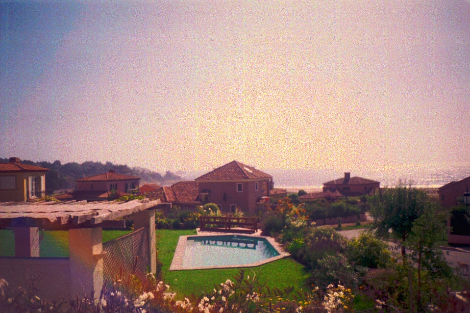 Santa Augusta , Quintay near Valparaiso Chile.